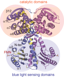 Ohki et al., PNAS June 14, 2016 113 (24) 6659-6664